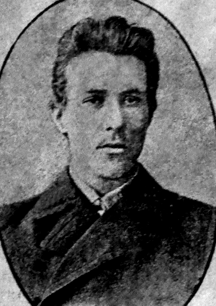 Alexei Rykov Student Kazan University 1900